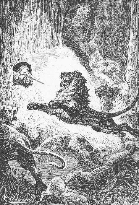 An illustration from Jules Verne's novel "Godfrey Morgan: A Californian Mystery" (also published as "Godfrey Morgan, School for Robinsons", and "School for Crusoes", 1882) drawn by Léon Benett.